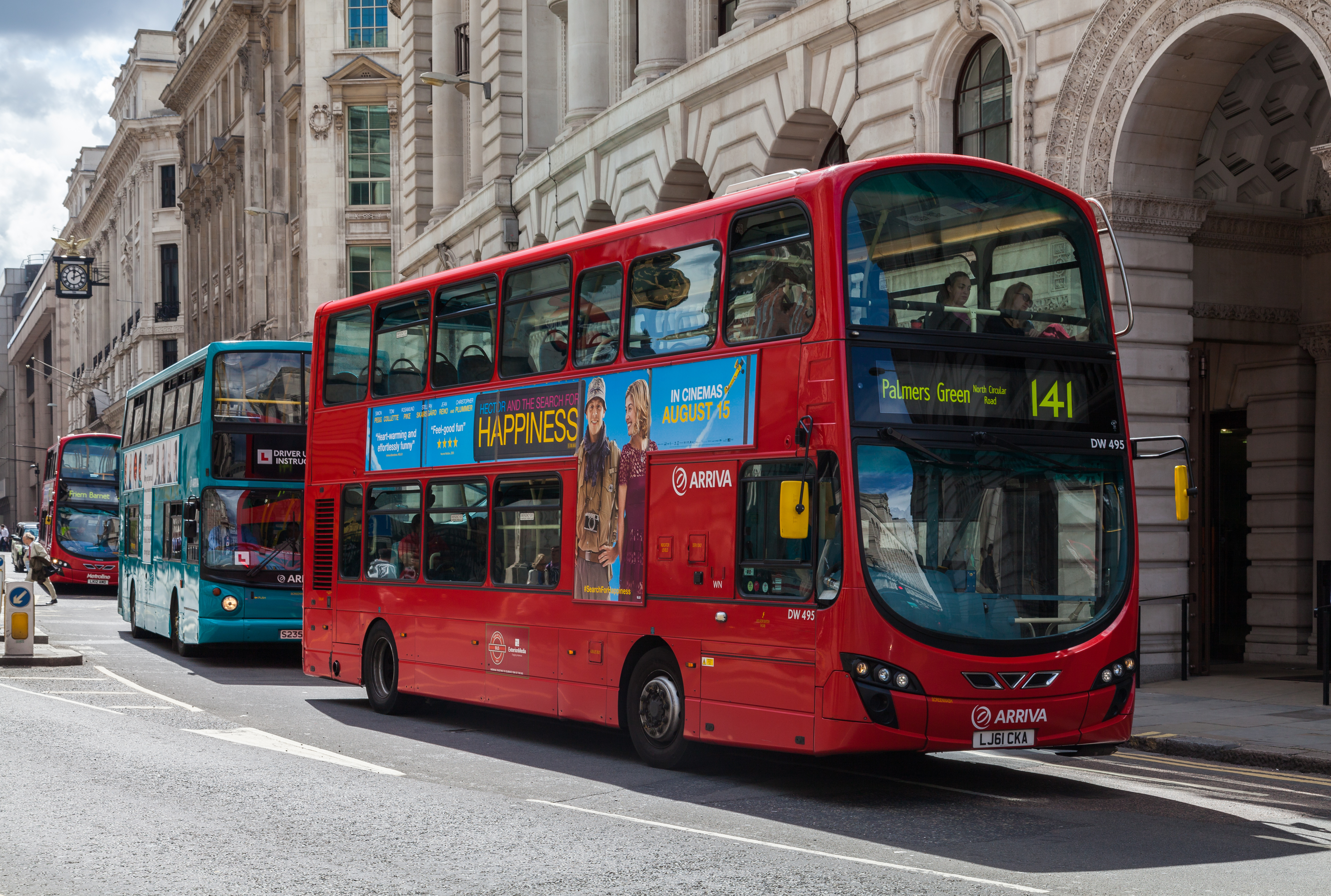 Double-deckers in Cornhill street, London, England